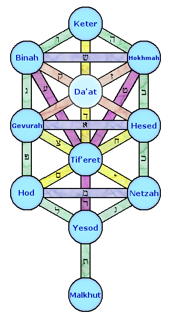 Version of the Tree of Life based on that which appears in the Bahir, but with the Sephiroth labelled with Latin letters, and showing both Keter and Da'ath (properly, only one would be shown, and the number of Sephiroth would therefore be ten). NB: The arrangement of paths and the assignment of Hebrew letters to them is correct for this source, which differs from the arrangements used much later in Western Occultism.